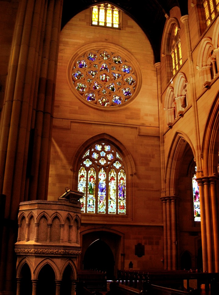 Sydney, St Marys Roman Catholic Cathedral, interior